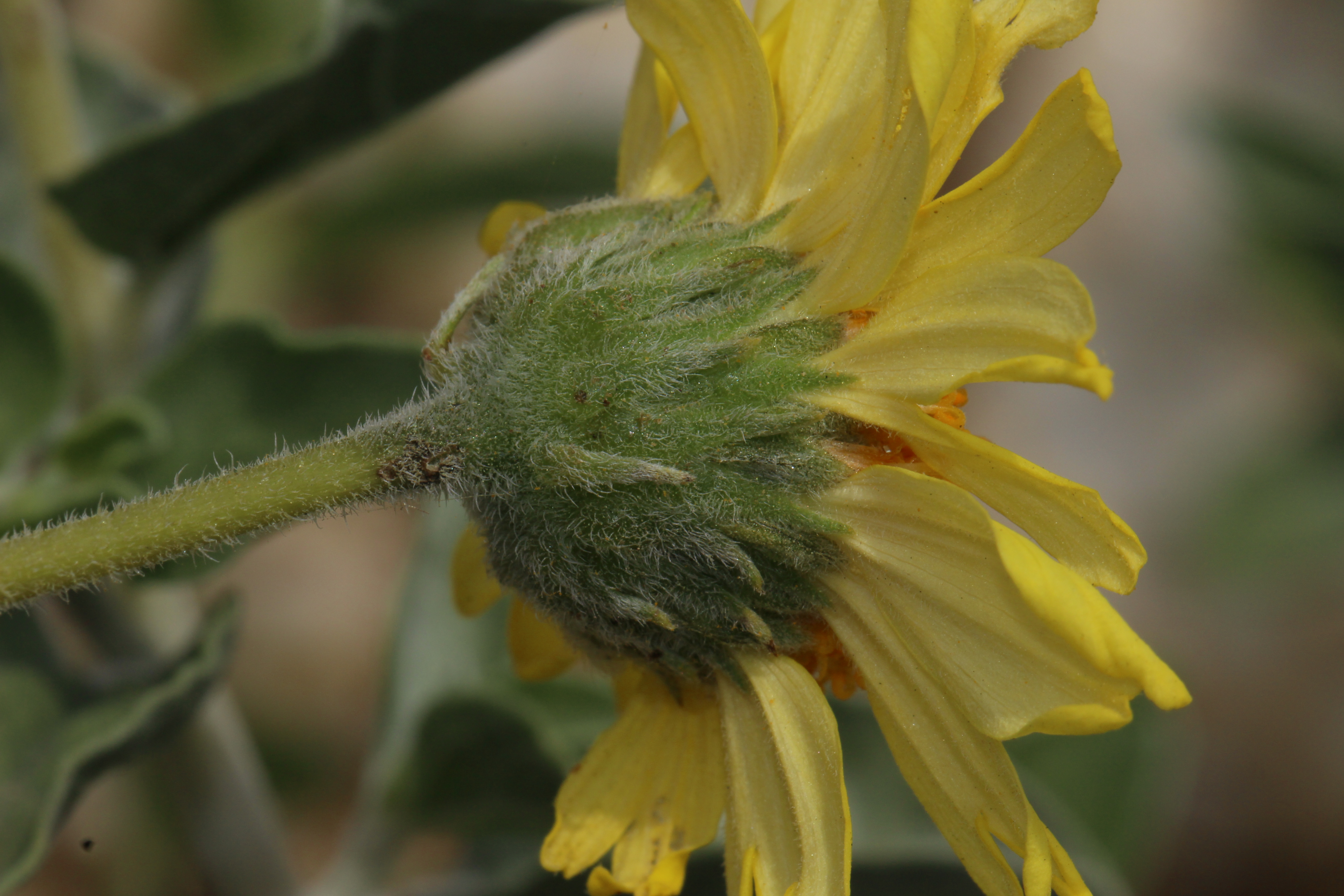 Acton Encelia Identification by: Linda Edwards and Vern Benhart Viewpoint location: Dry wash west of Godde Hill Road, 150 m north of Hacienda Ranch Road; Lancaster, California Viewpoint elevation: 942 meter (3092 ft) Location source: Garmin GPSmap 60CSx Location Datum: WGS84